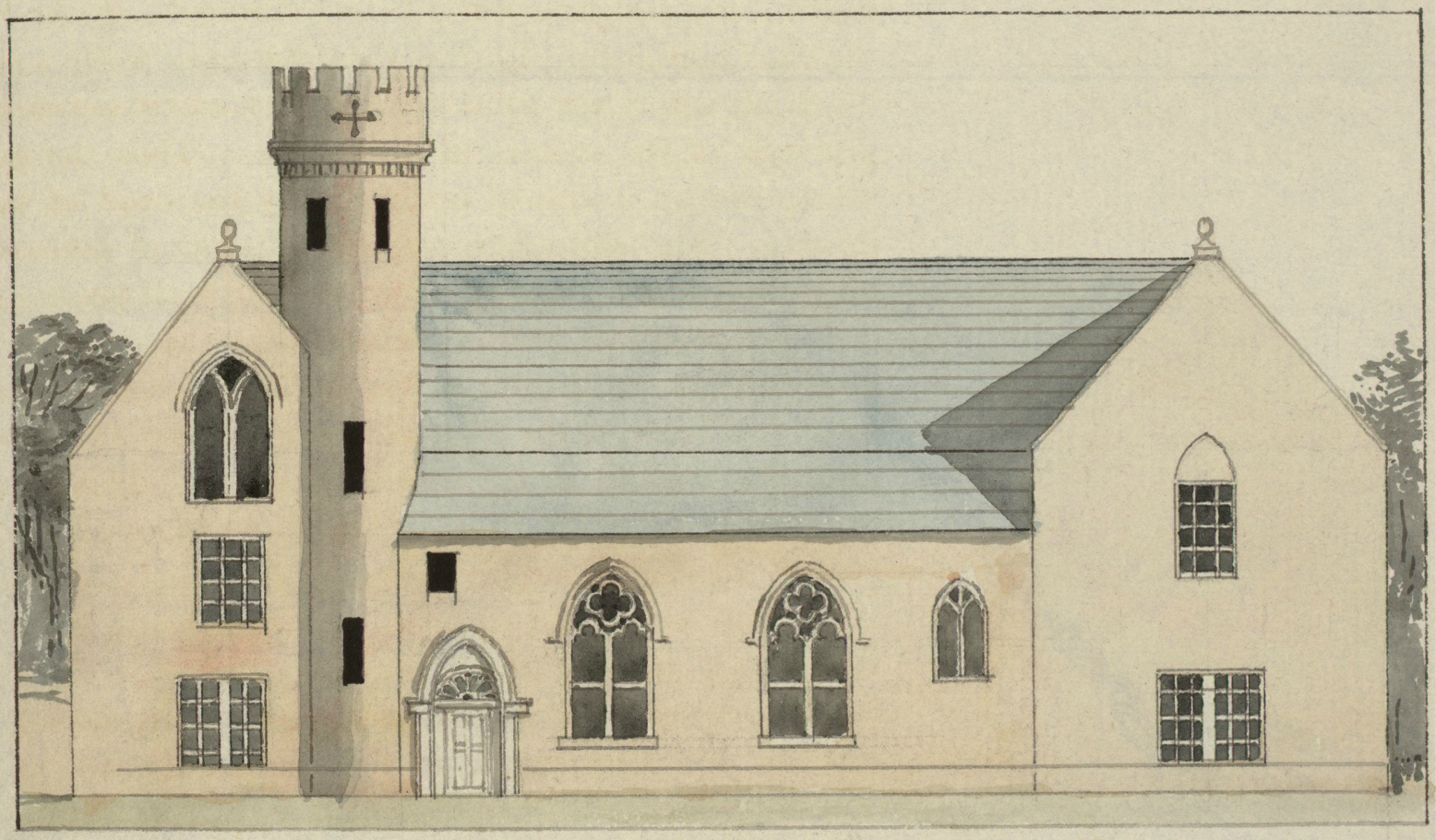 Penrhyn Castle 1783